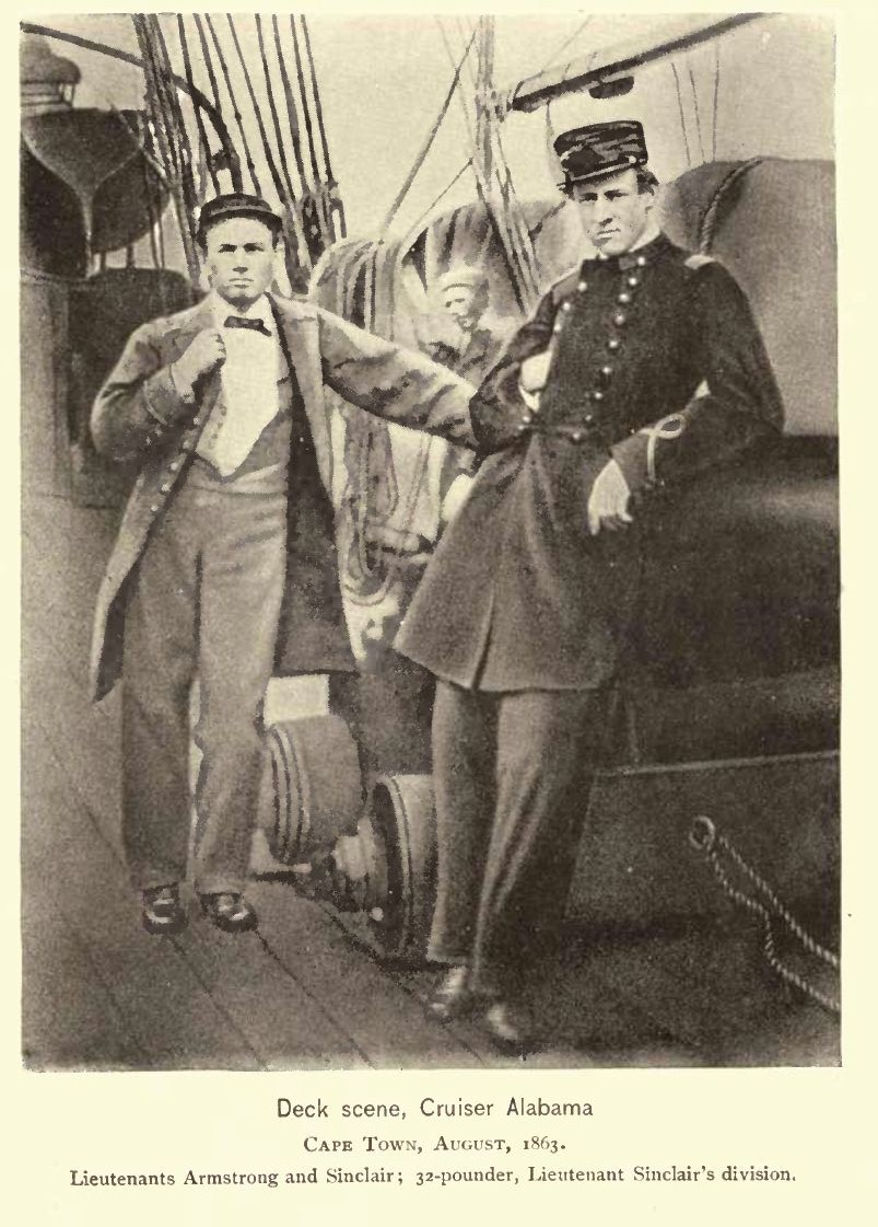 Deck scene, CSS Alabama 1863 from Two Years on the Alabama, by Arthur Sinclair (1896)